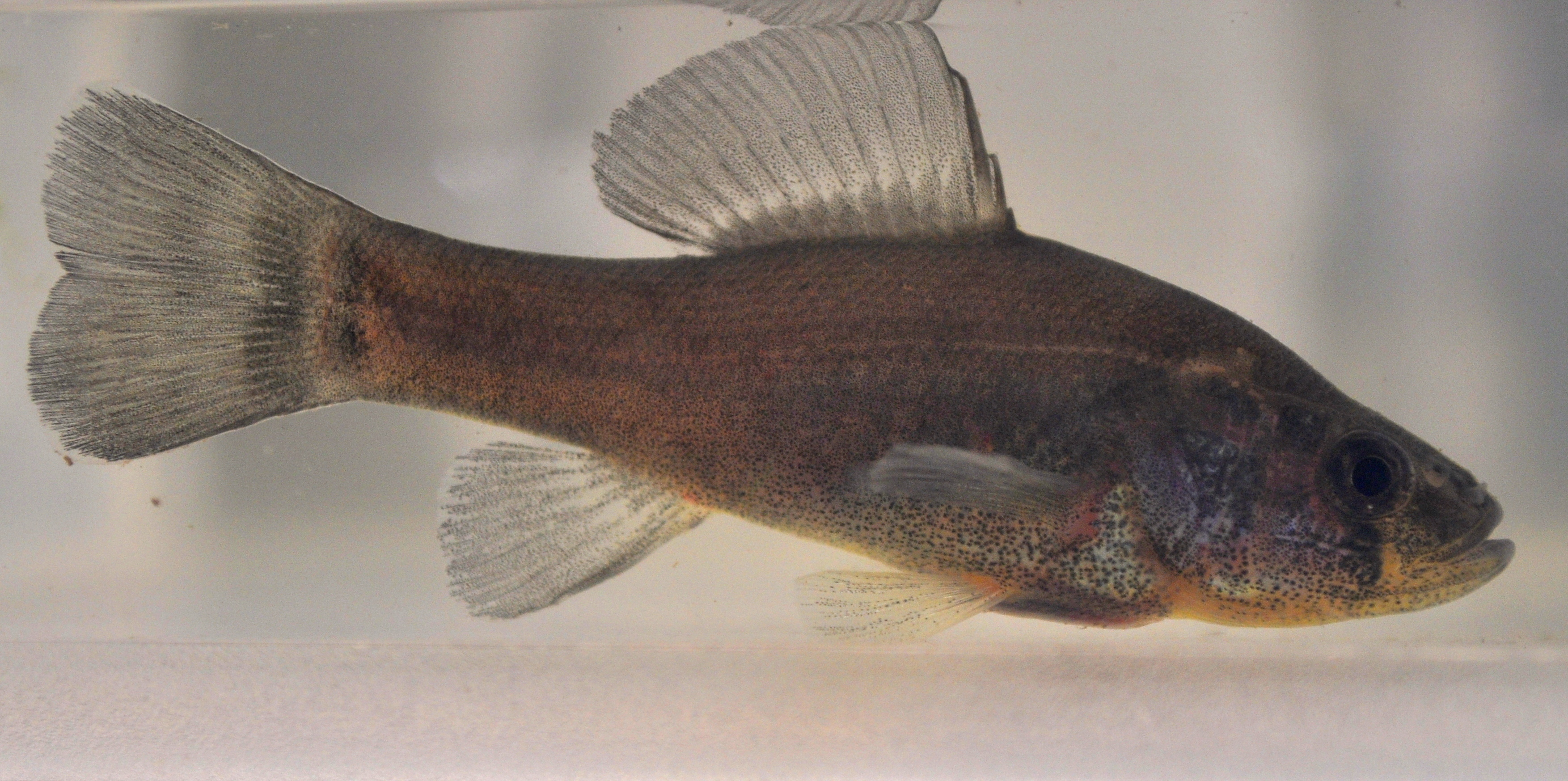 Pirate perch (Aphredoderus sayanus) fish collected from the Kaskaskia River watershed in Illinois.